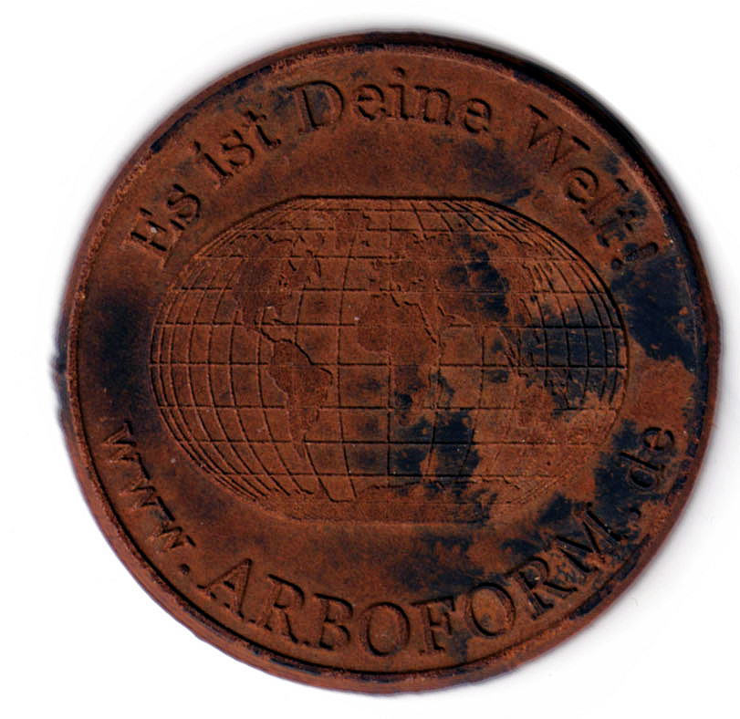 Arboform; Lignin polymer